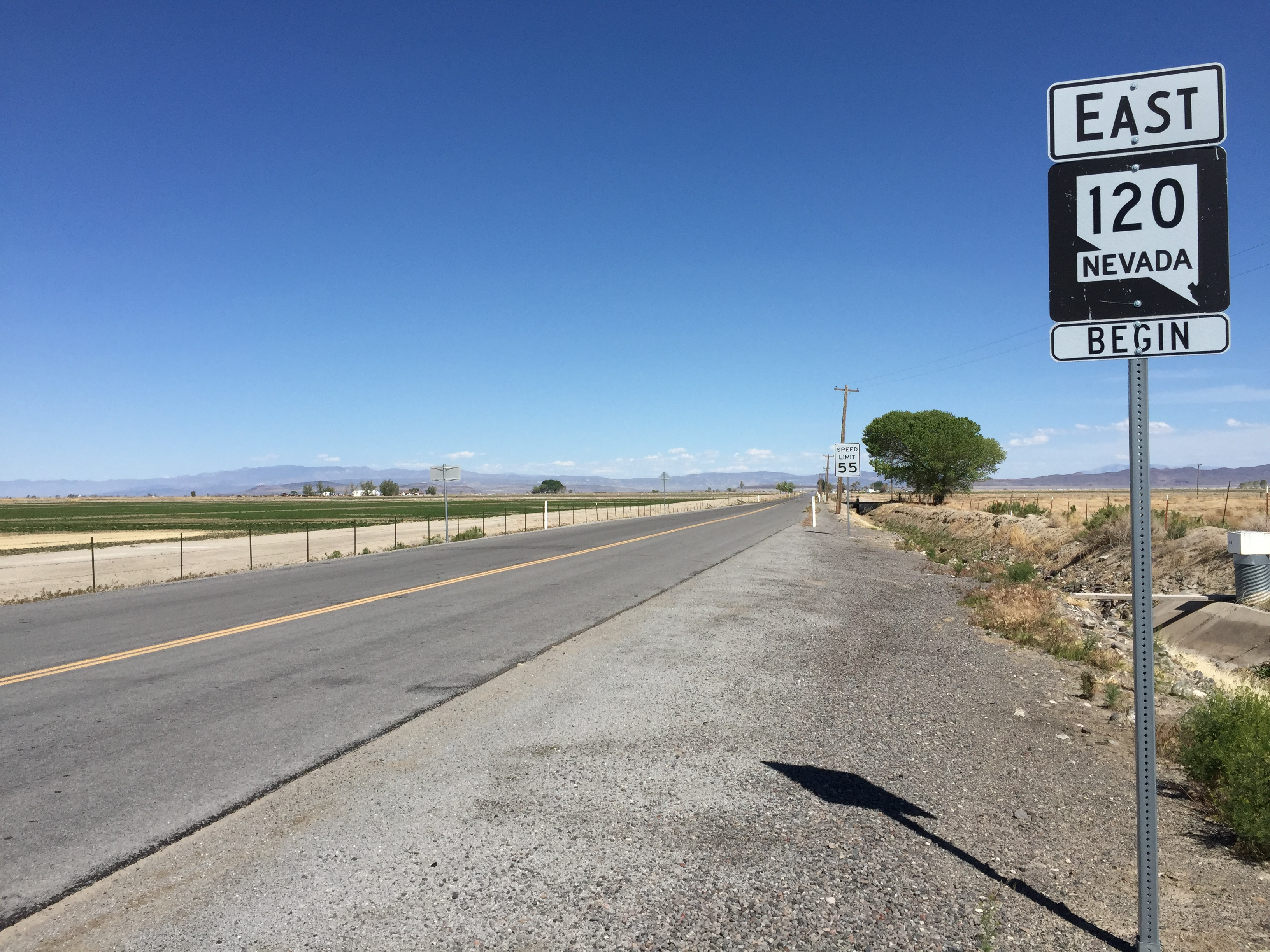 View east from the west end of Nevada State Route 120 (Pasture Road) in Churchill County, Nevada